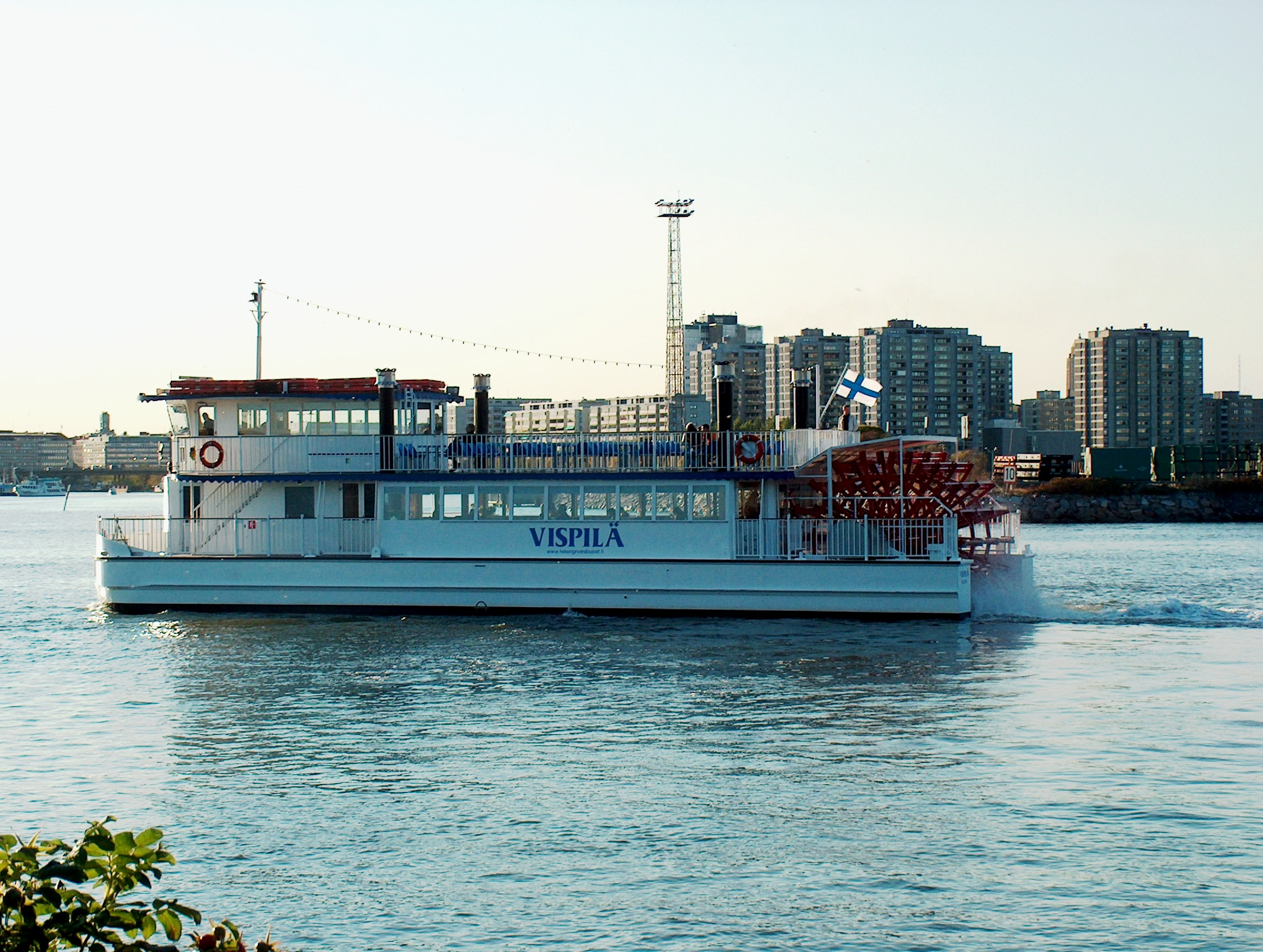 Paddle steamer Vispilä in Helsinki from Hakaniemi to Korkeasaari Zoo